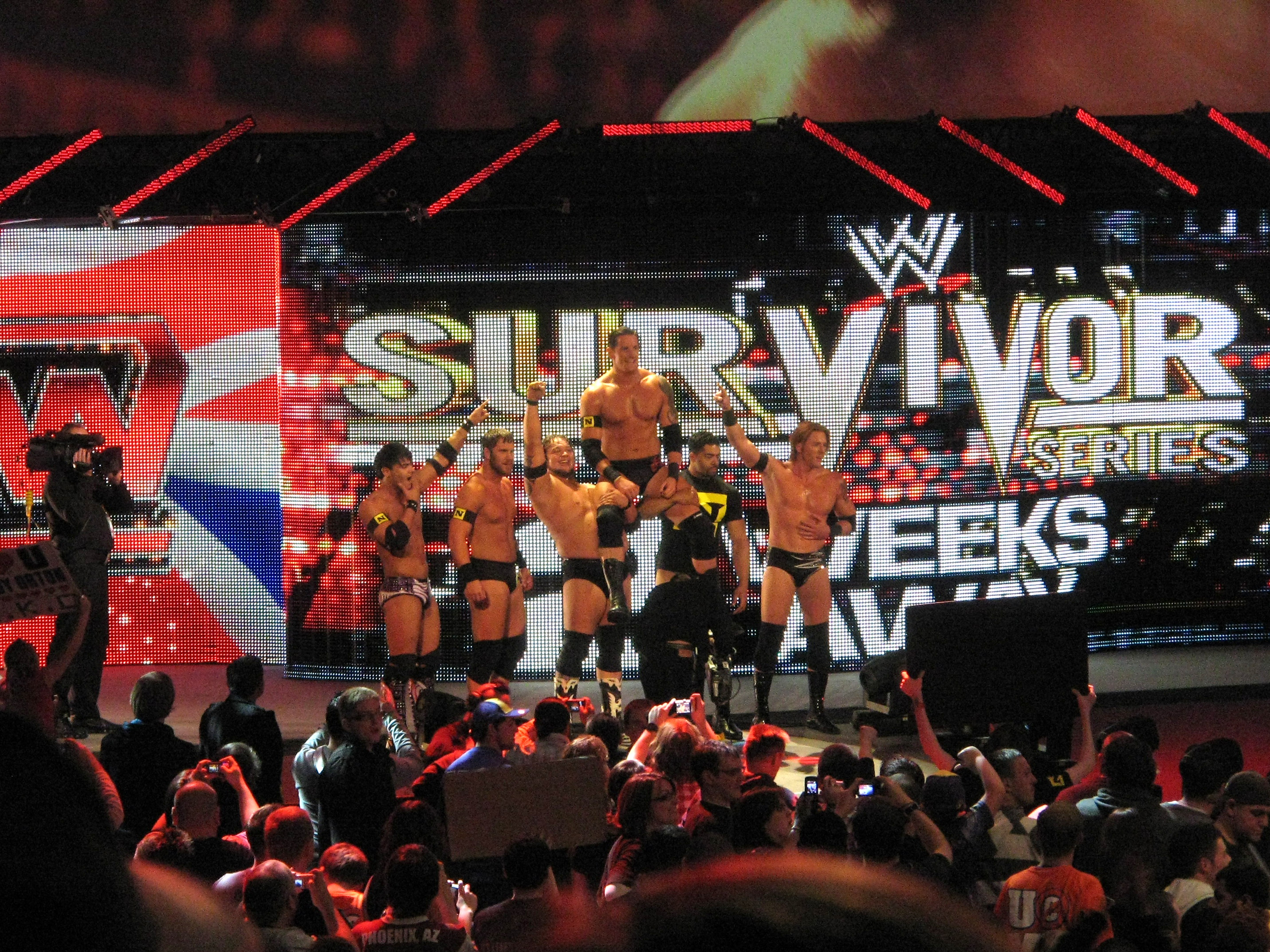 The Nexus (from left to right): Justin Gabriel, Michael McGillicutty, Husky Harris, Wade Barrett, David Otunga, and Heath Slater.